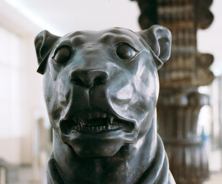 Statue of a molosser-type dog, the Mastiff of Persepolis, from the south east tower of the Apadana of Persepolis. National Museum, Tehran, Iran.